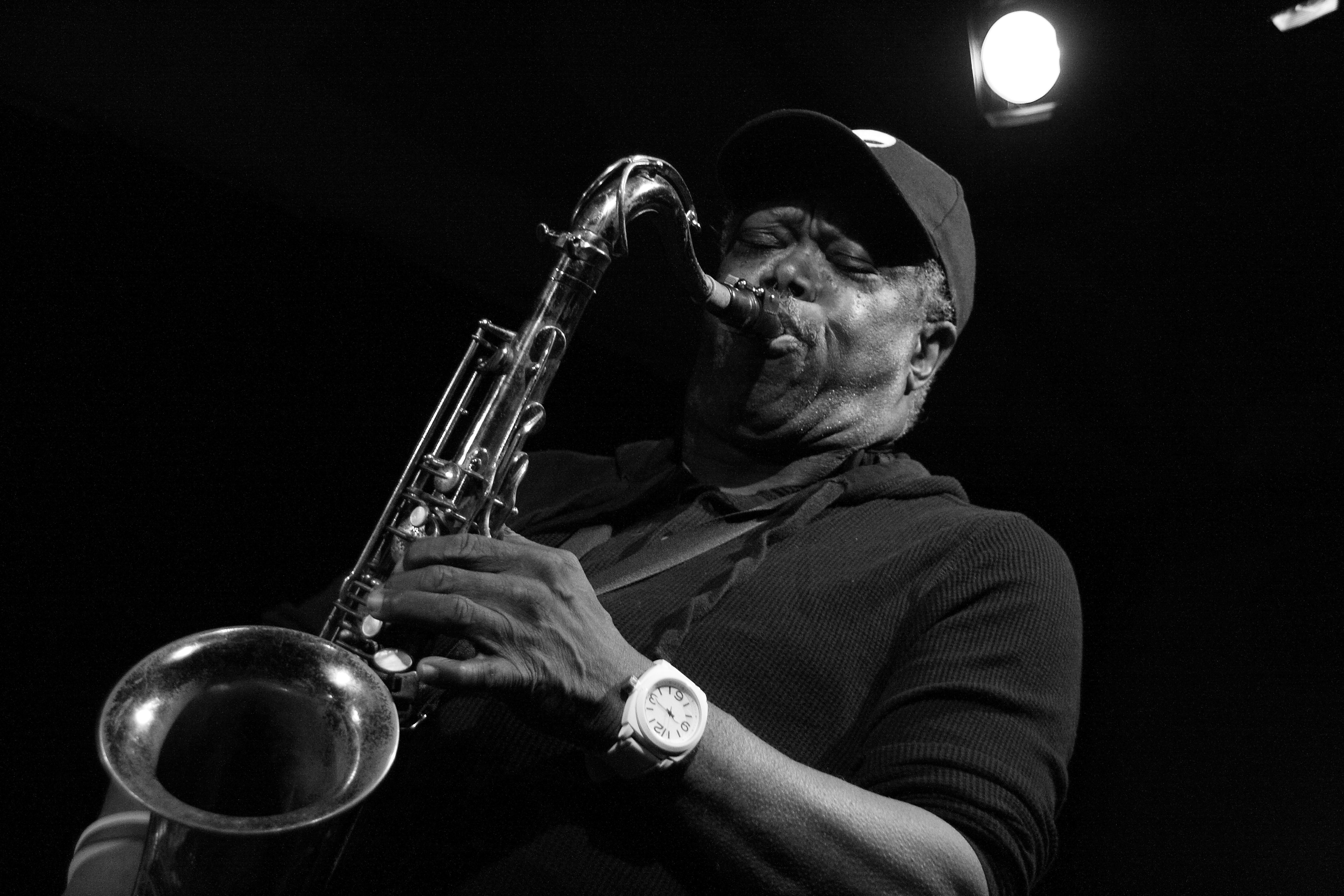 Joe McPhee 2013 in concert with Survival Unit III at Club W71, Weikersheim.